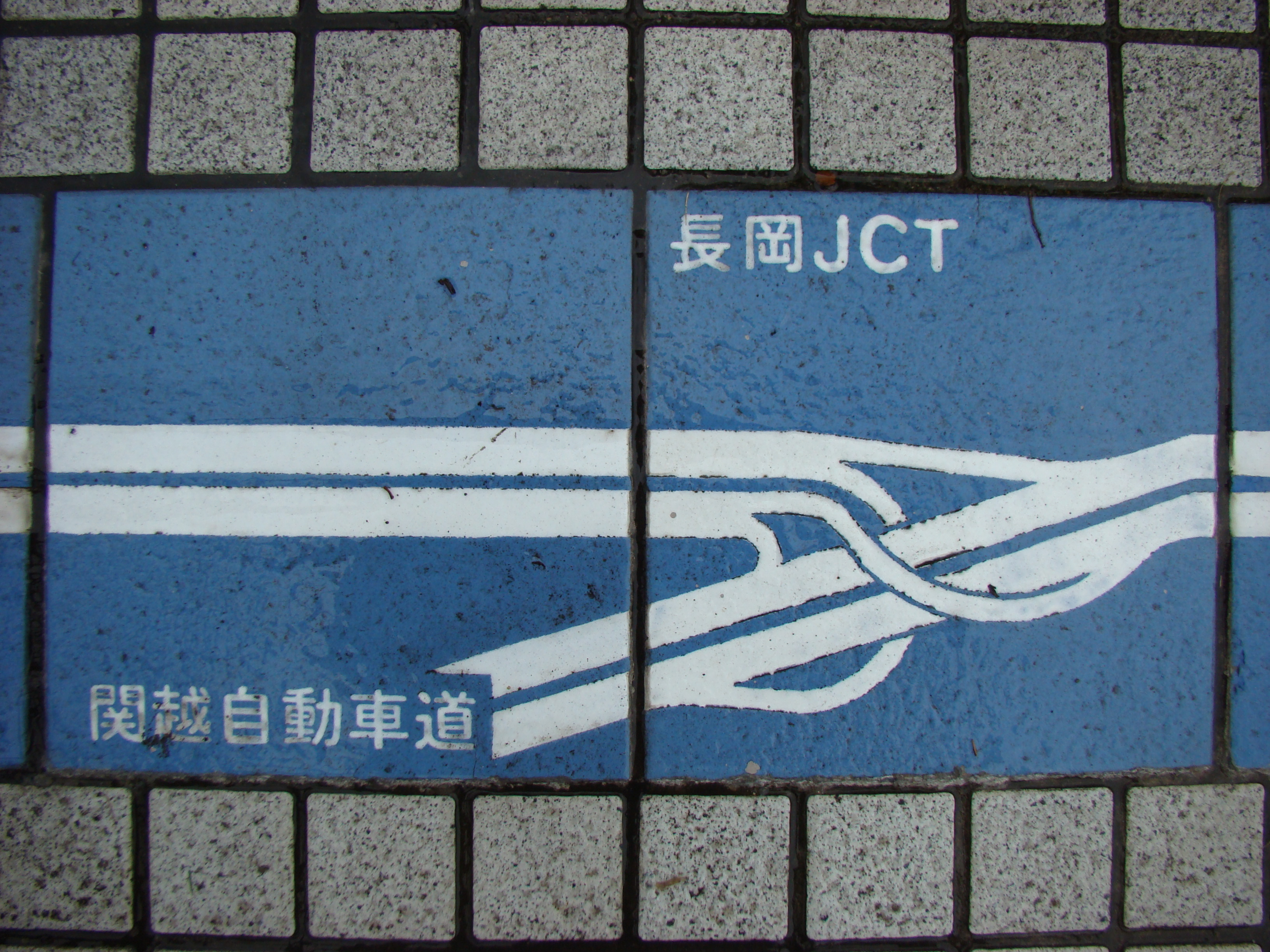 The tile which designed a shape of the Nagaoka Junction（Hokuriku Expressway and Kan-Etsu Expressway） （There is this tile in Hokuriku Expressway Nadachi-Tanihama Service Area.）. Place - Chayagahara,Joetsu City,Niigata Prefecture,Japan Date - August 9, 2009 Format - JPEG, 3264x2448pixel, 24bit colors. Photographer - NALA Wiki (talk)